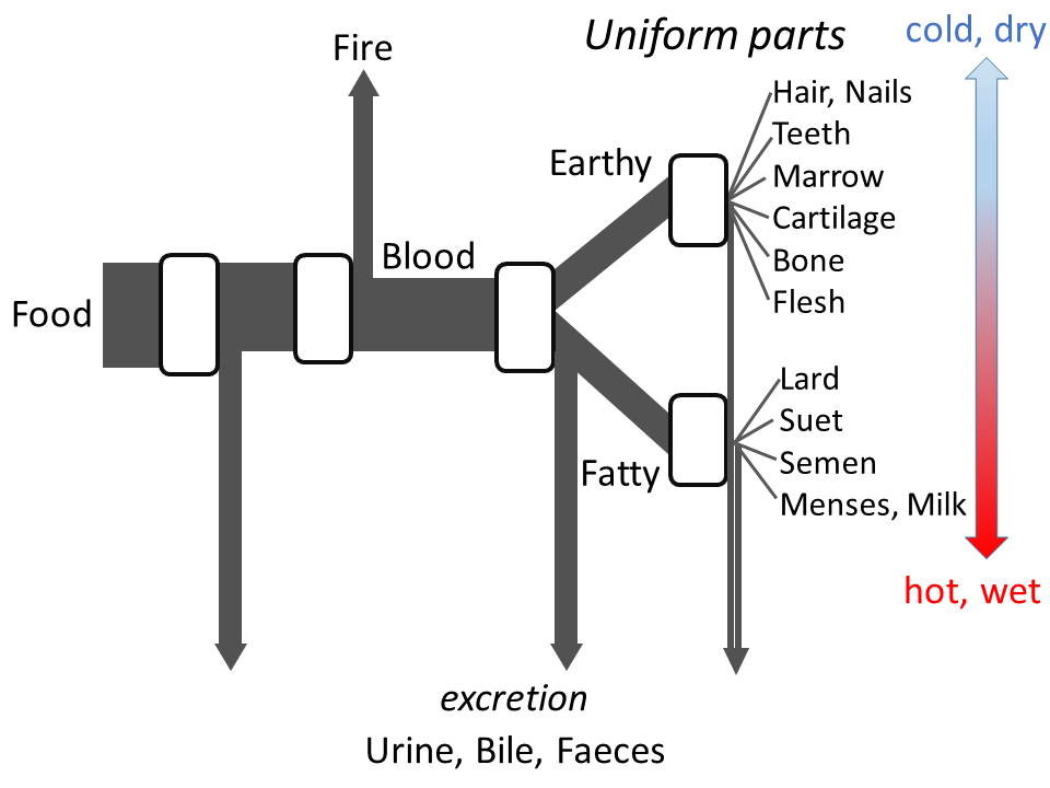 Aristotle's metabolism as an open flow model. Each process produces residues which are excreted. Each tissue is a completely uniform part with no internal structure.